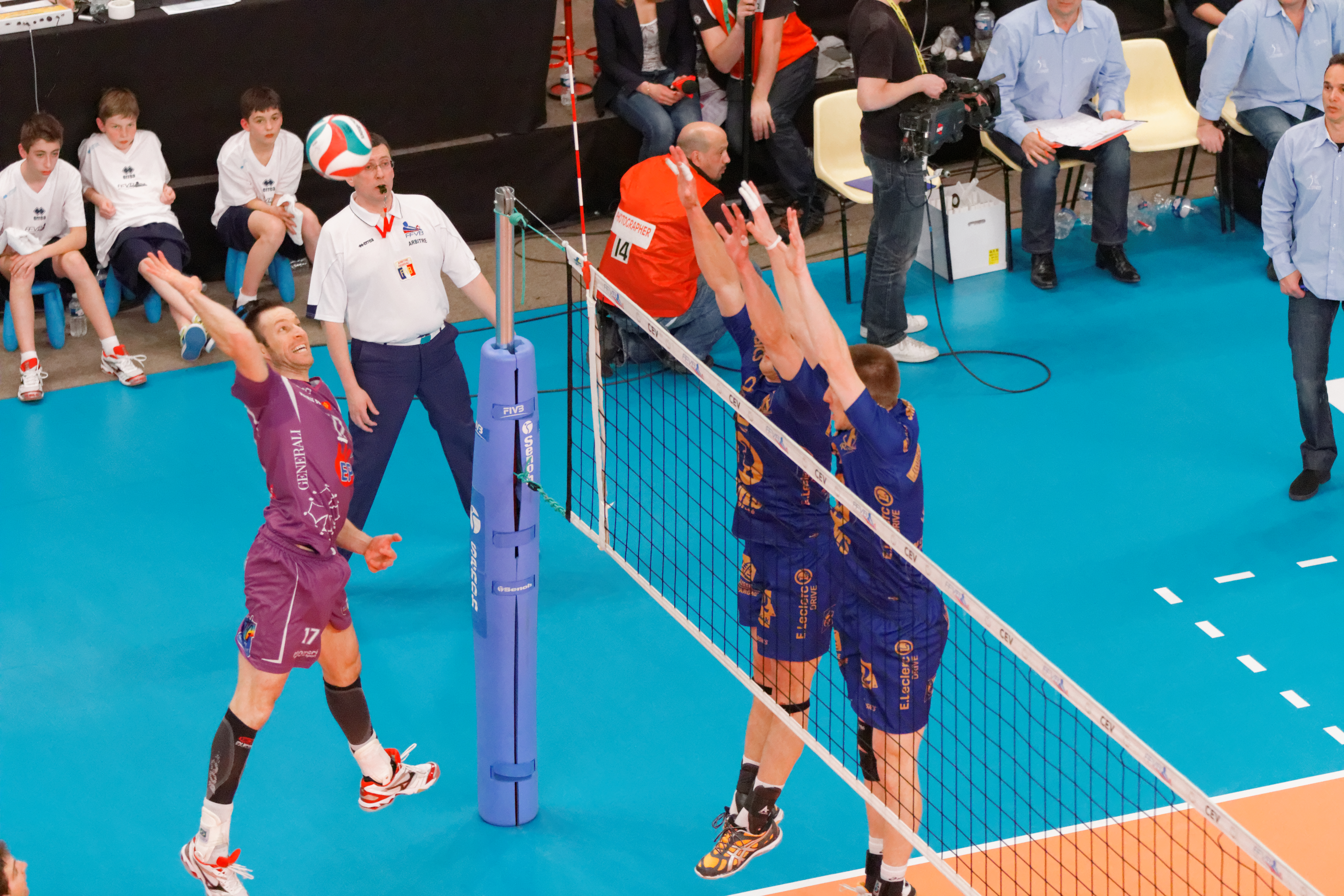 Final of the Volleyball French Cup, Tours Volley-Ball - Spacer's Toulouse Volley, March 30, 2013.